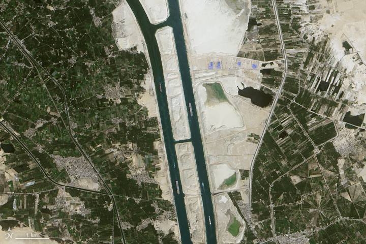 New_Suez_canal_detail